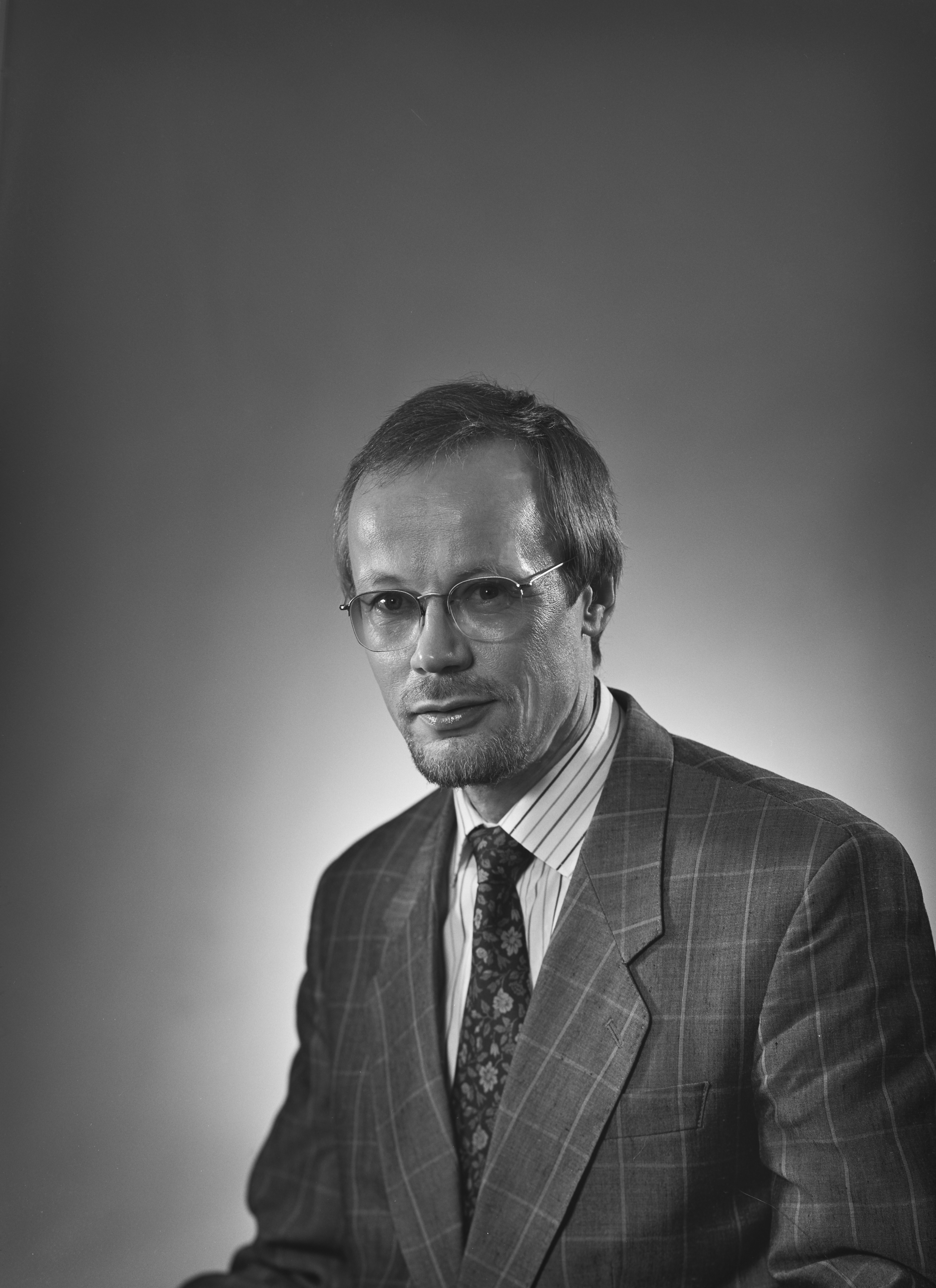 Photograph of the Finnish chemist Pekka Pyykkö (1941–).